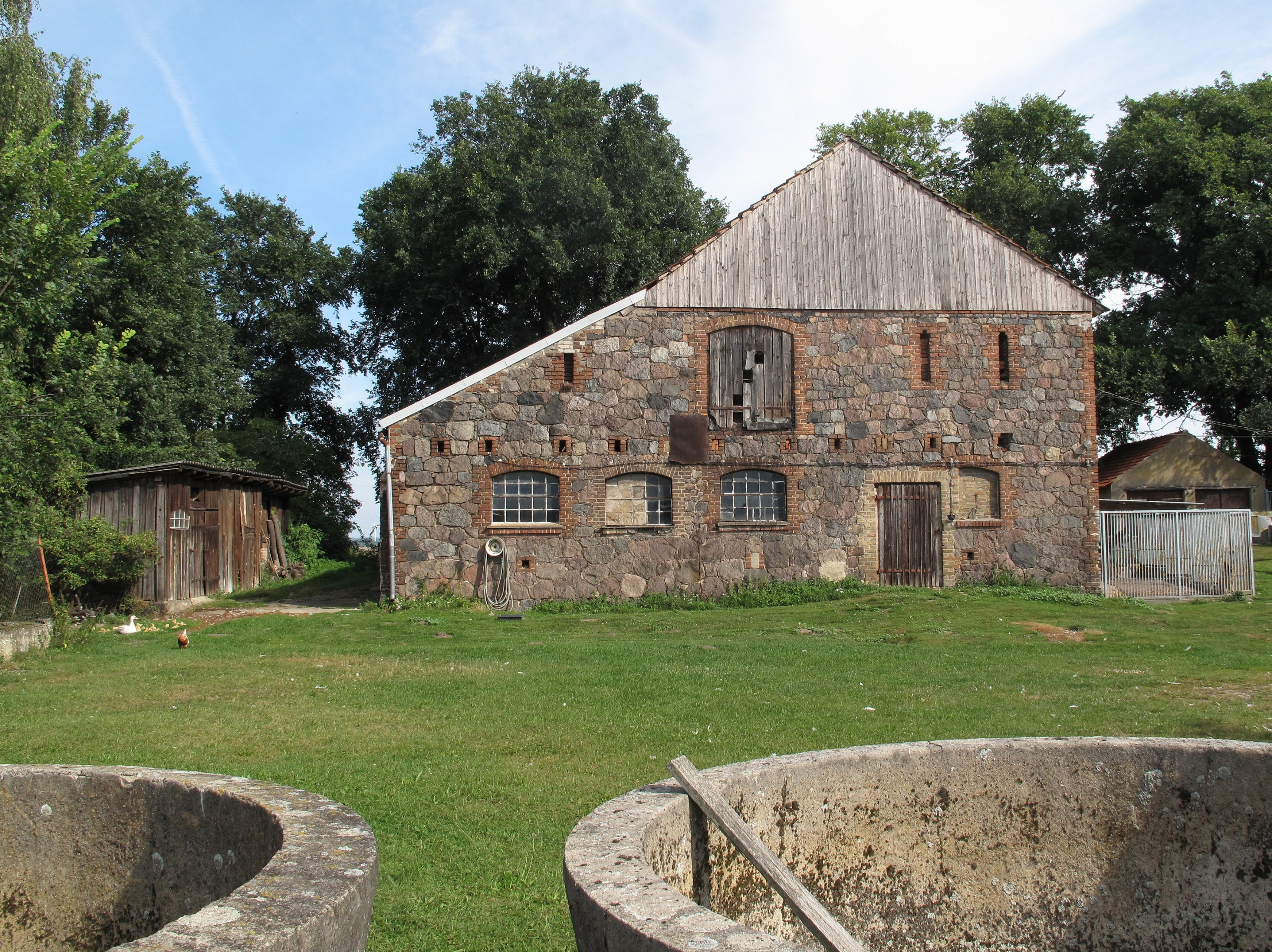 Ernsthof is a hamlet of Grunow, a village of the municipality Oberbarnim in the District Märkisch-Oderland, Brandenburg, Germany. Ernsthof was founded in 1833 as folwark of Grunow.